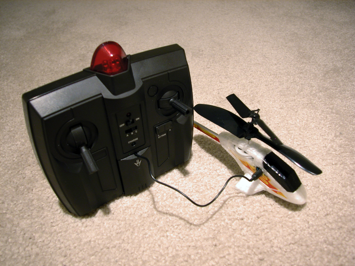 Front view of the PicooZ remote controlled helicopter being charged directly from the 2-channel controller. Camera used was a Nikon Coolpix 5000.